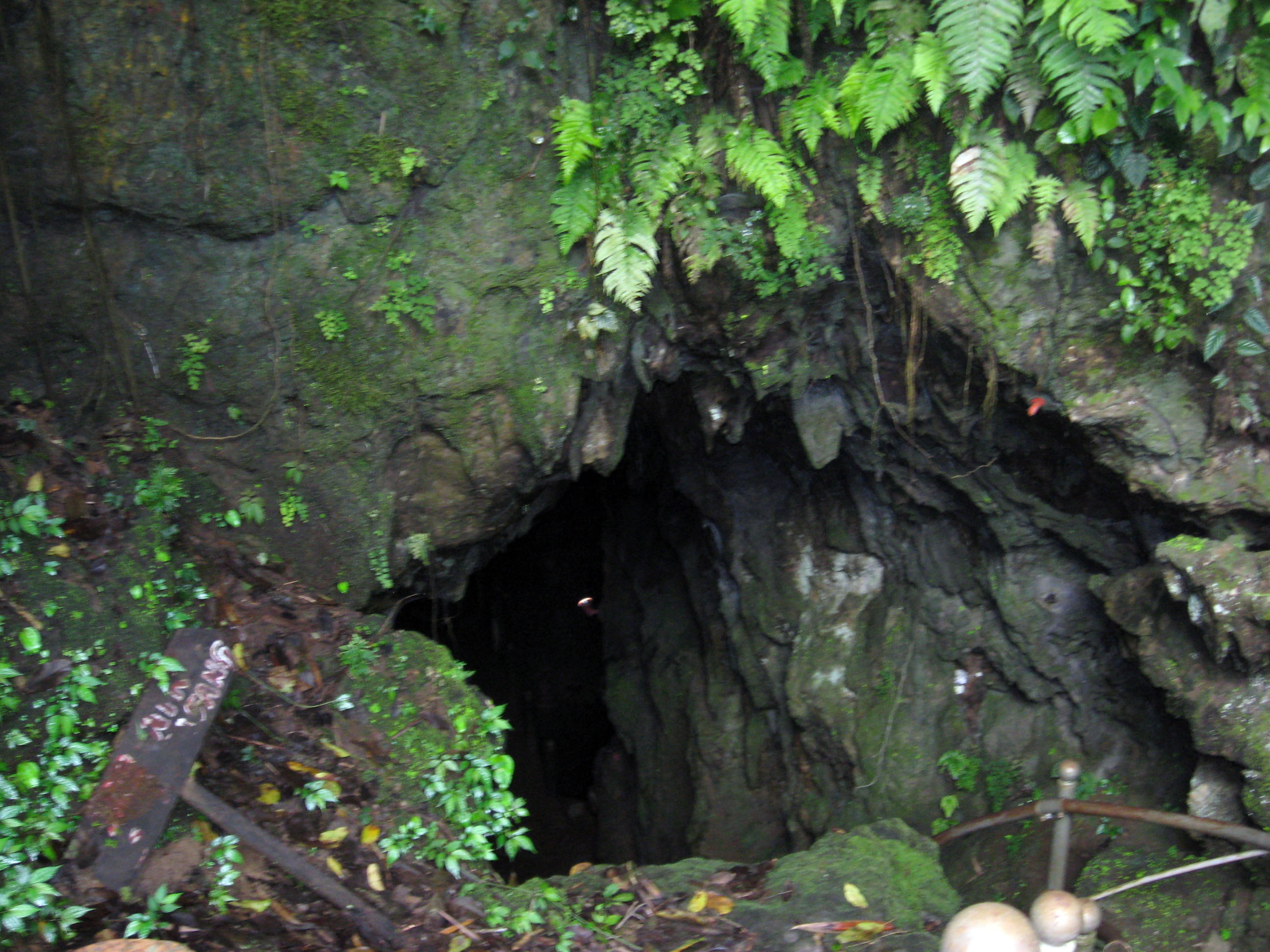 The mouth of Kiskendo Cave, in Kulon Progo Regency, Special Region of Yogyakarta, Indonesia.